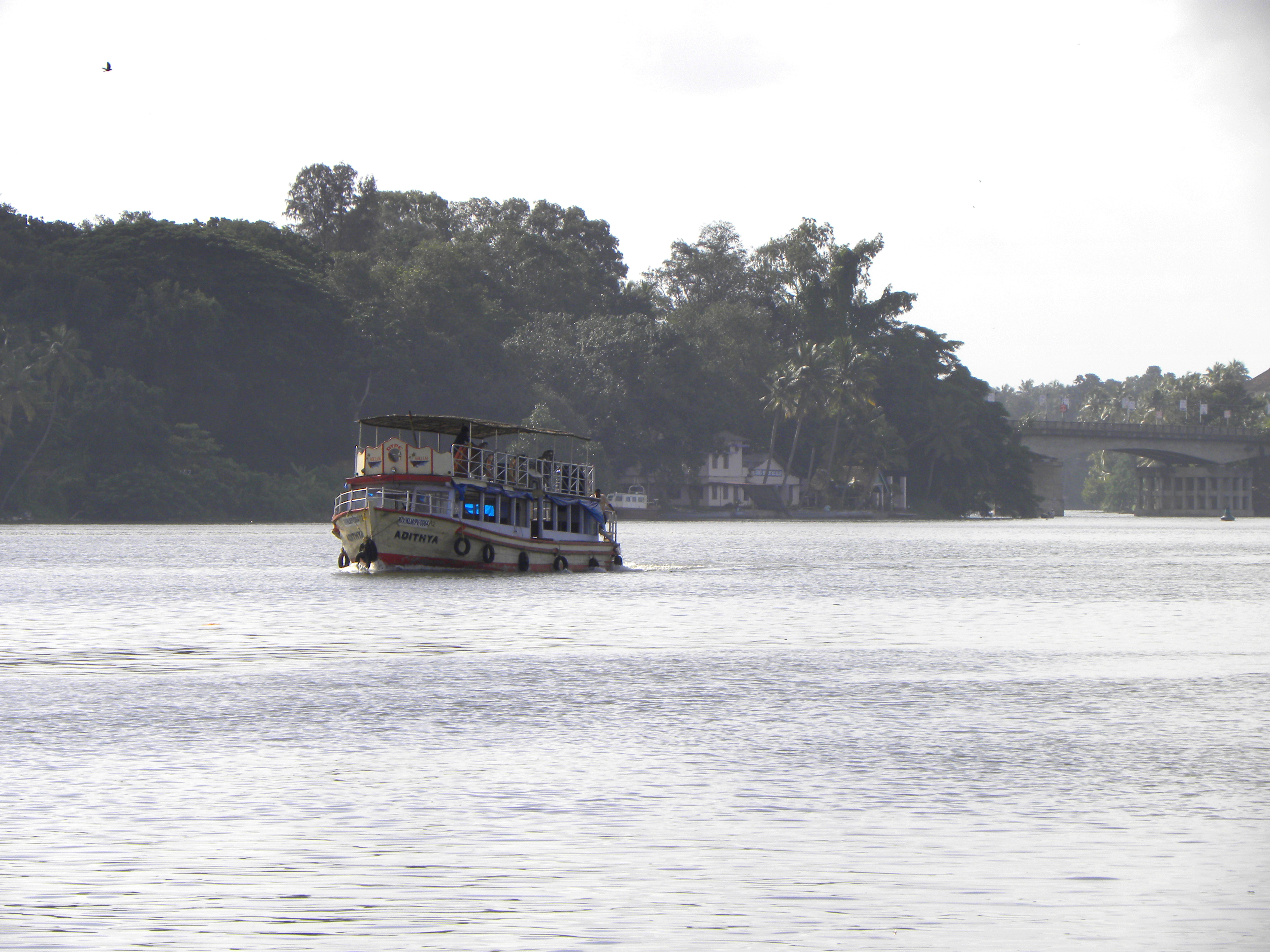 Kollam is one among the 6 districts served by the inland navigation water transport facilities in the Indian state of Kerala. The main water transportation of Kollam city is through Lake Ashtamudi. It is the second largest lake in Kerala.